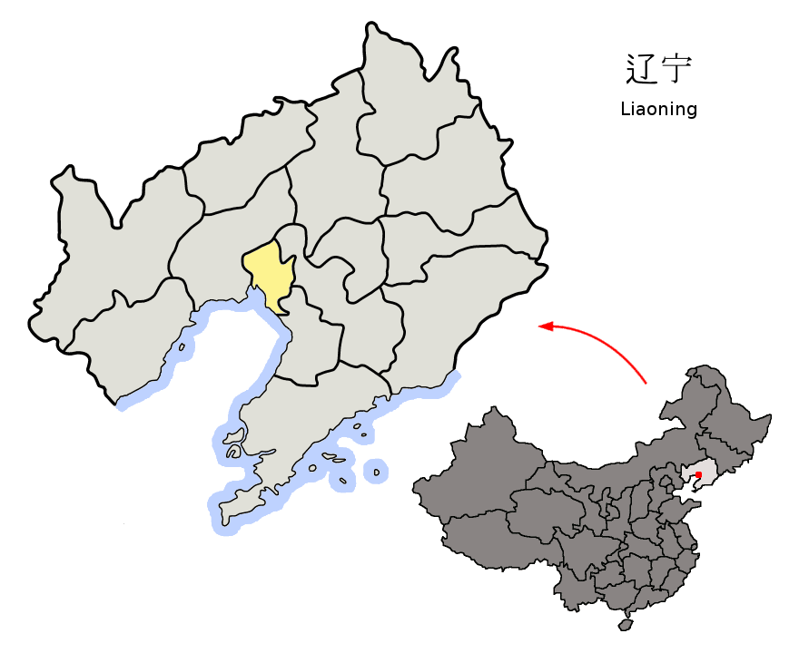 Location of Panjin Prefecture (yellow) within Liaoning Province of China Map drawn in november 2007 using various sources, mainly : Liaoning Province administrative regions GIS data: 1:1M, County level, 1990 Liaoning Counties map from